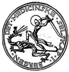 Logo for Det medisinske selskap i Bergen